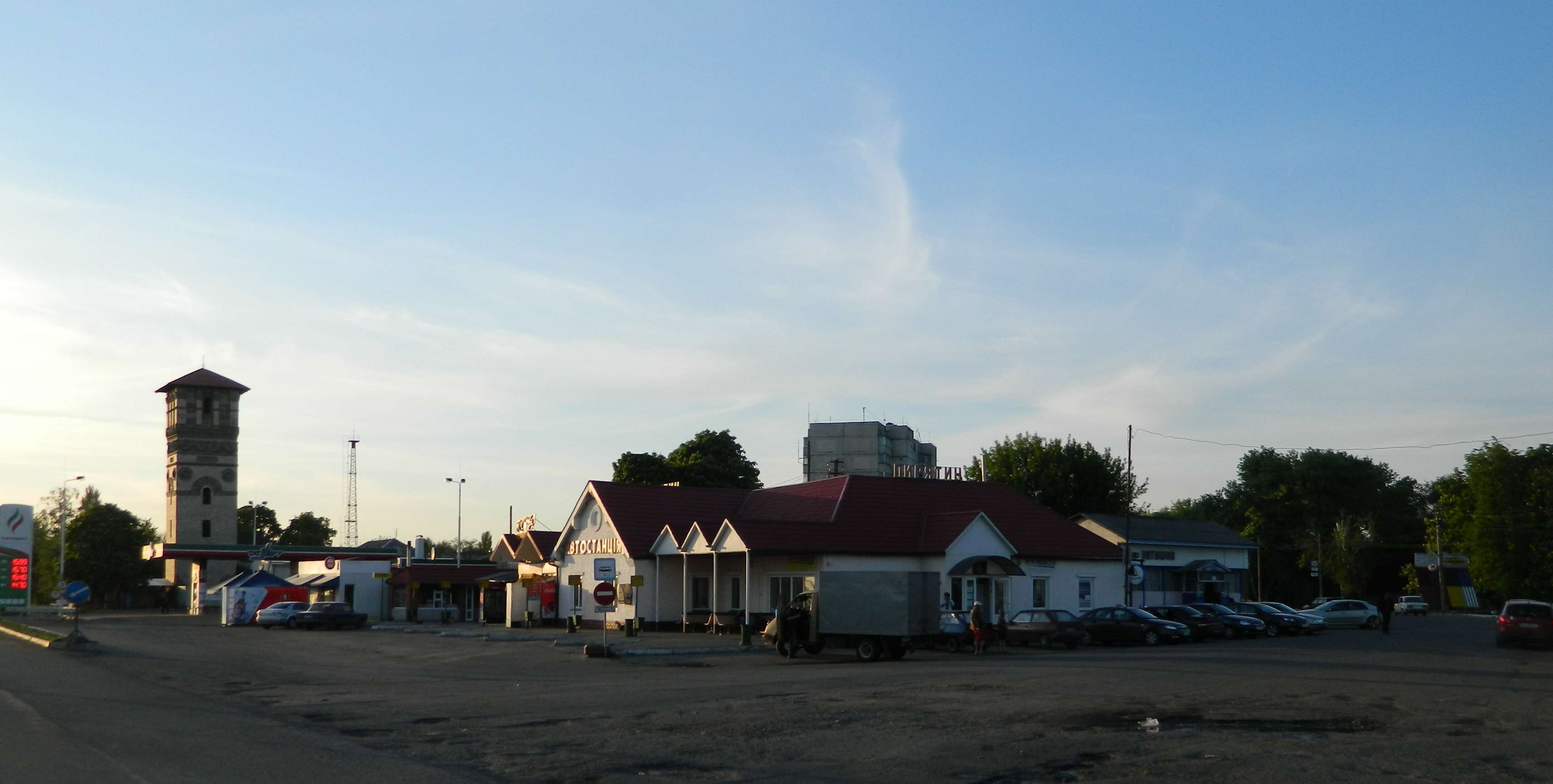 Ukraine. Pyriatyn. Bus station.